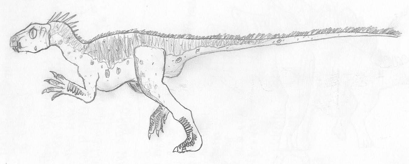 A picture of Heterodontosaurus, mostly anatomically correct. I have shown it with a bit of down-like integumentation and some sort of spines, neither of which are proven (or unproven) to exist. A skeletal was used as a reference (drawn by Luis V. Rey).